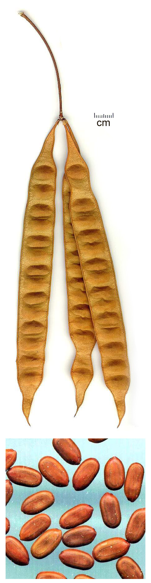 Legume and seed of Albizia julibrissin (photo: Mihailo Grbic)